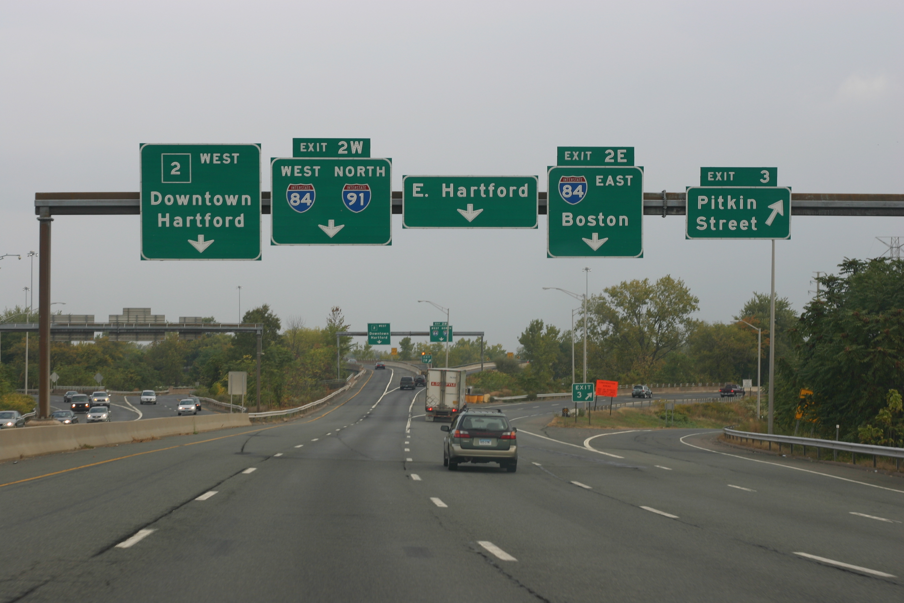 Connecticut Route 2 as it enters Hartford.